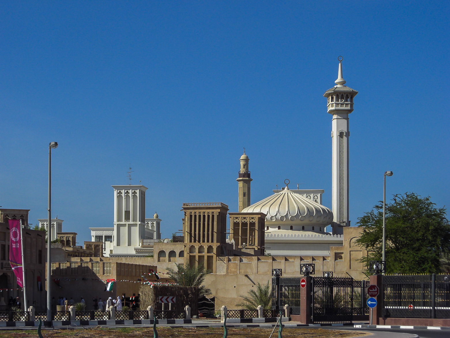 Al Bastakiya, Dubai